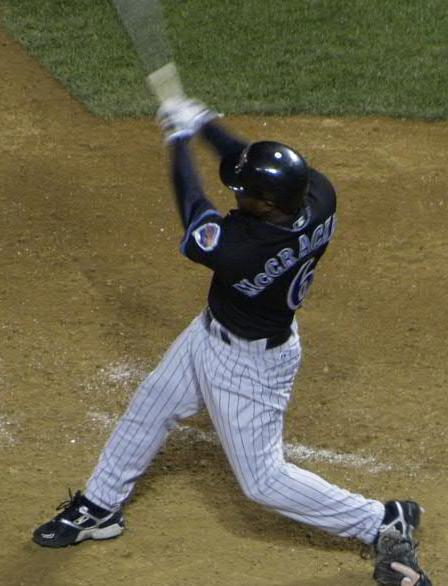 Quinton McCracken of the Arizona Diamondbacks swings at a pitch during a 2005 game at SBC Park in San Francisco